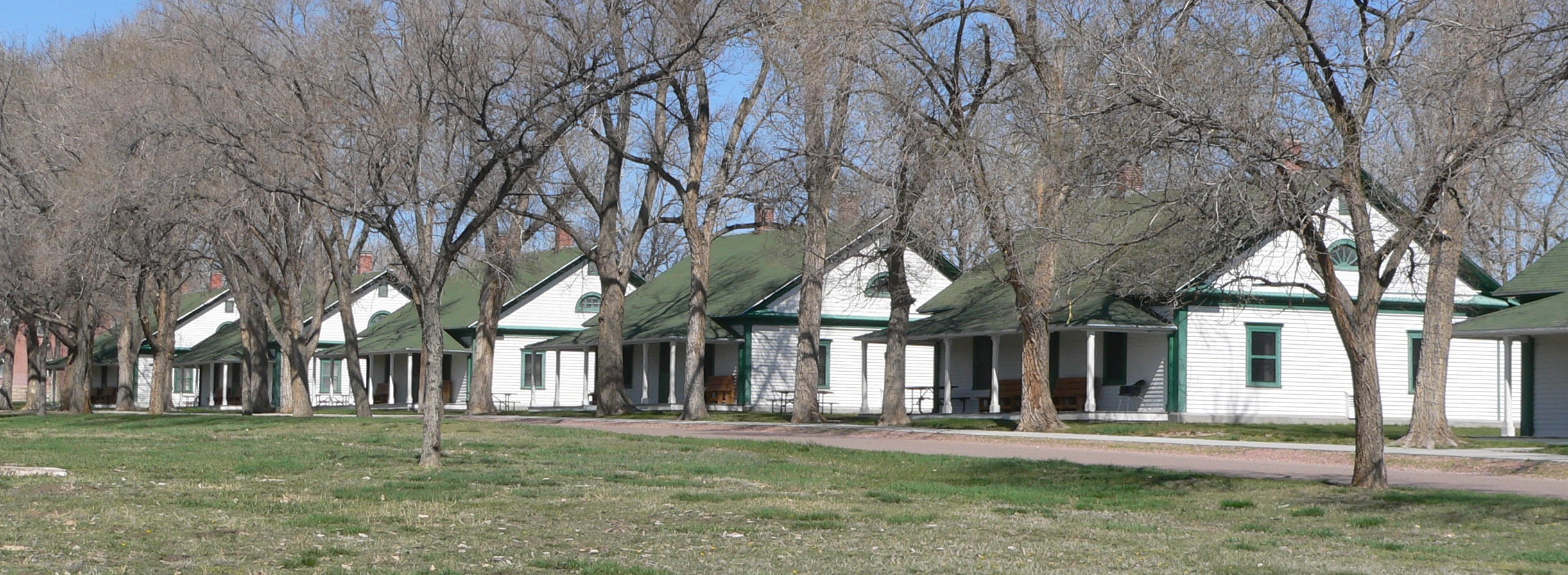 1874-75 officers' quarters at Fort Robinson near Crawford, Nebraska.